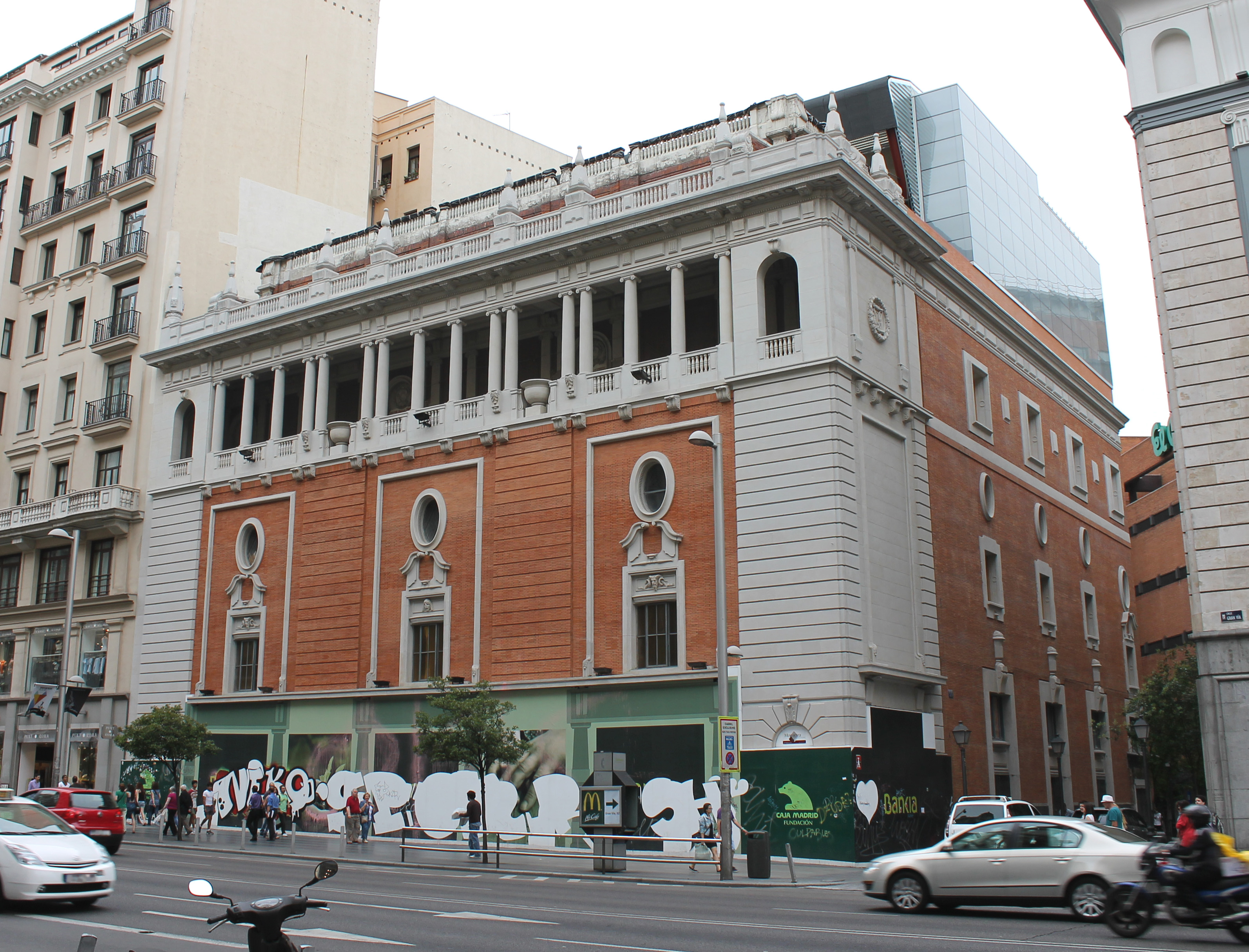 Façade of Palacio de la Música in Madrid (Spain).